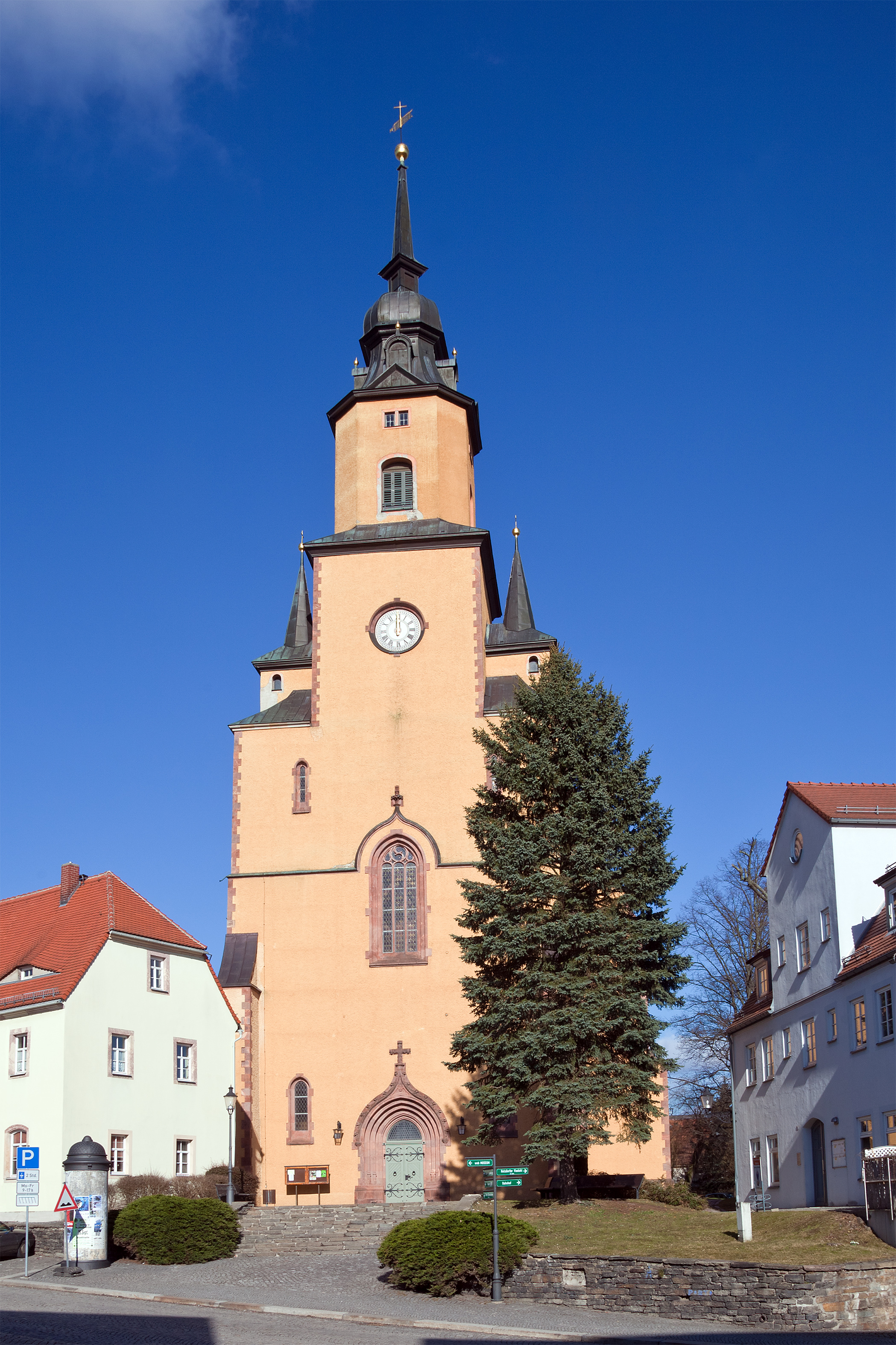 Oederan, Saxony, church